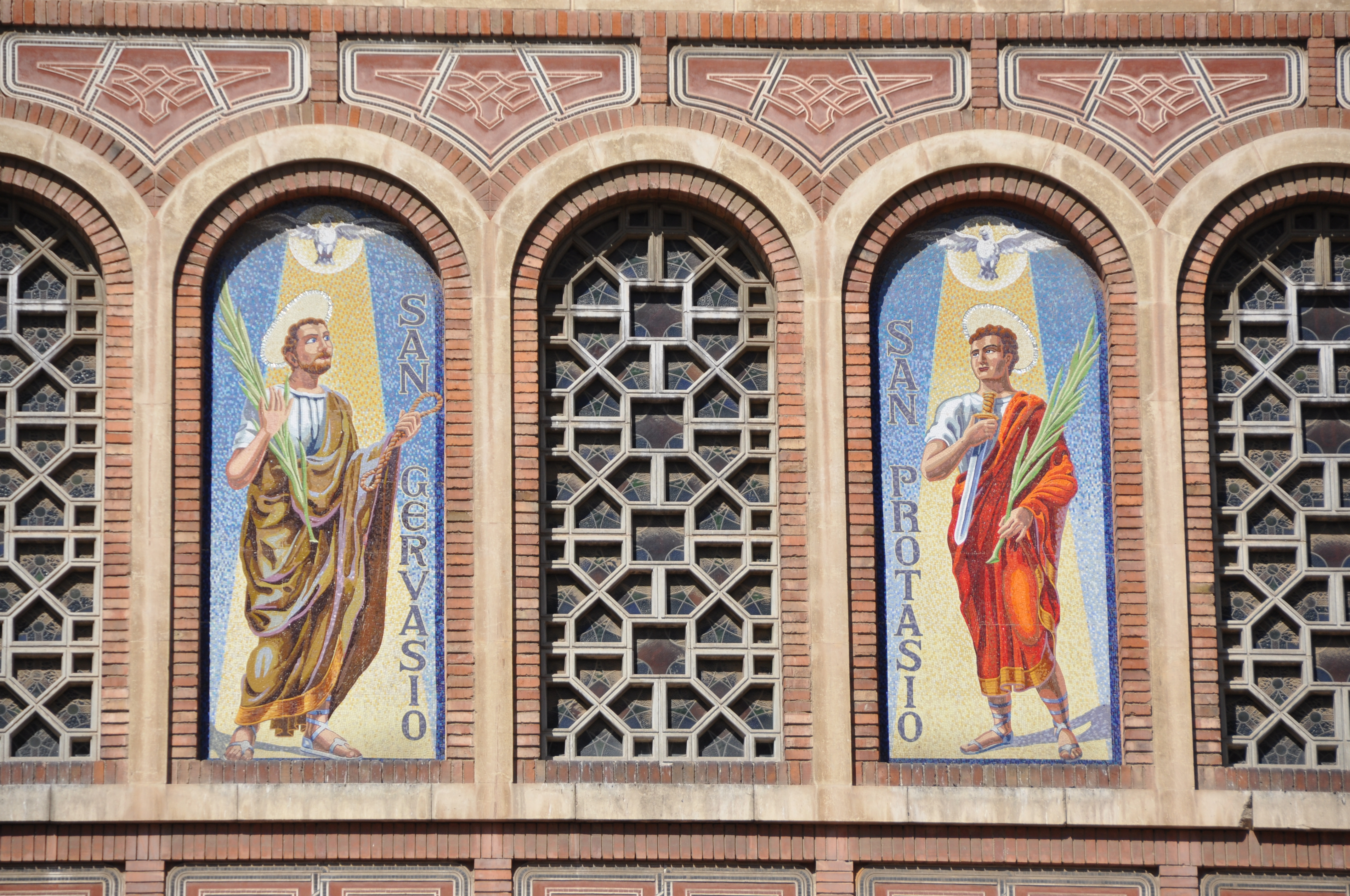 Barcelona Mare de Déu de la Bonanova church. Mosaics on the façade Saints Gervasius and Protasius